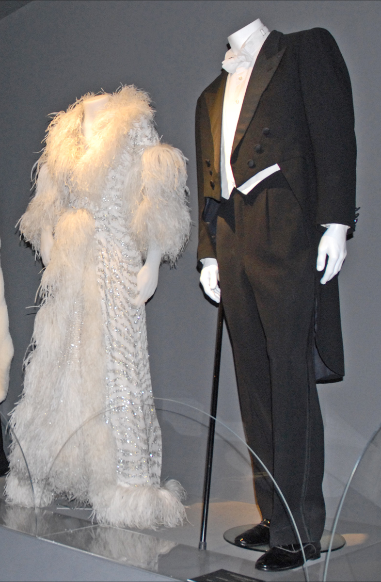 Costumes worn by Giulietta Massina and Marcello Mastroianni in the film Ginger and Fred (Ginger e Fred) directed by Federico Fellini in 1985. Costume designer: Danilo Donati